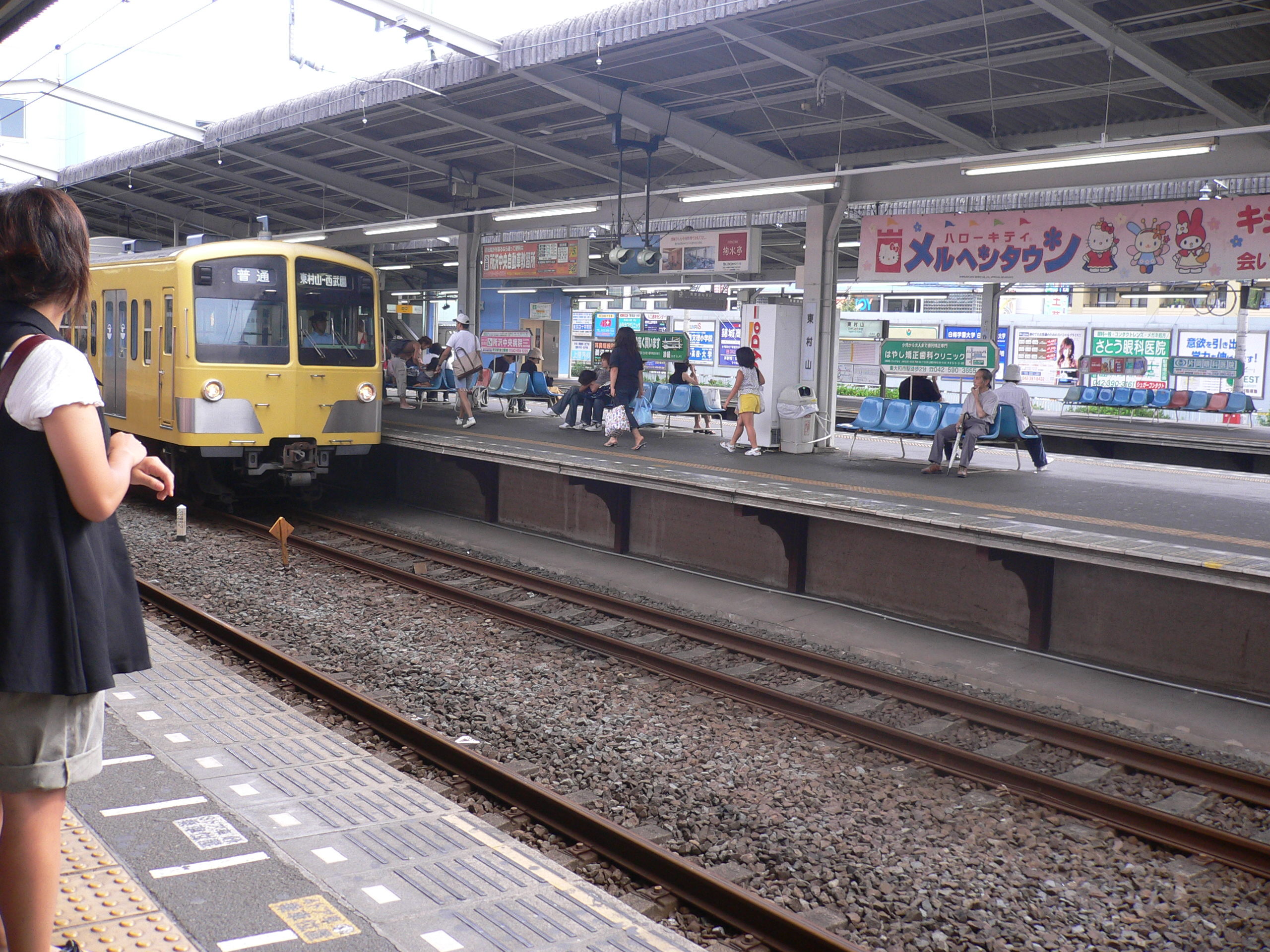 Higashi-Murayama Station on the Seibu Shinjuku Line in Higashimurayama, Tokyo